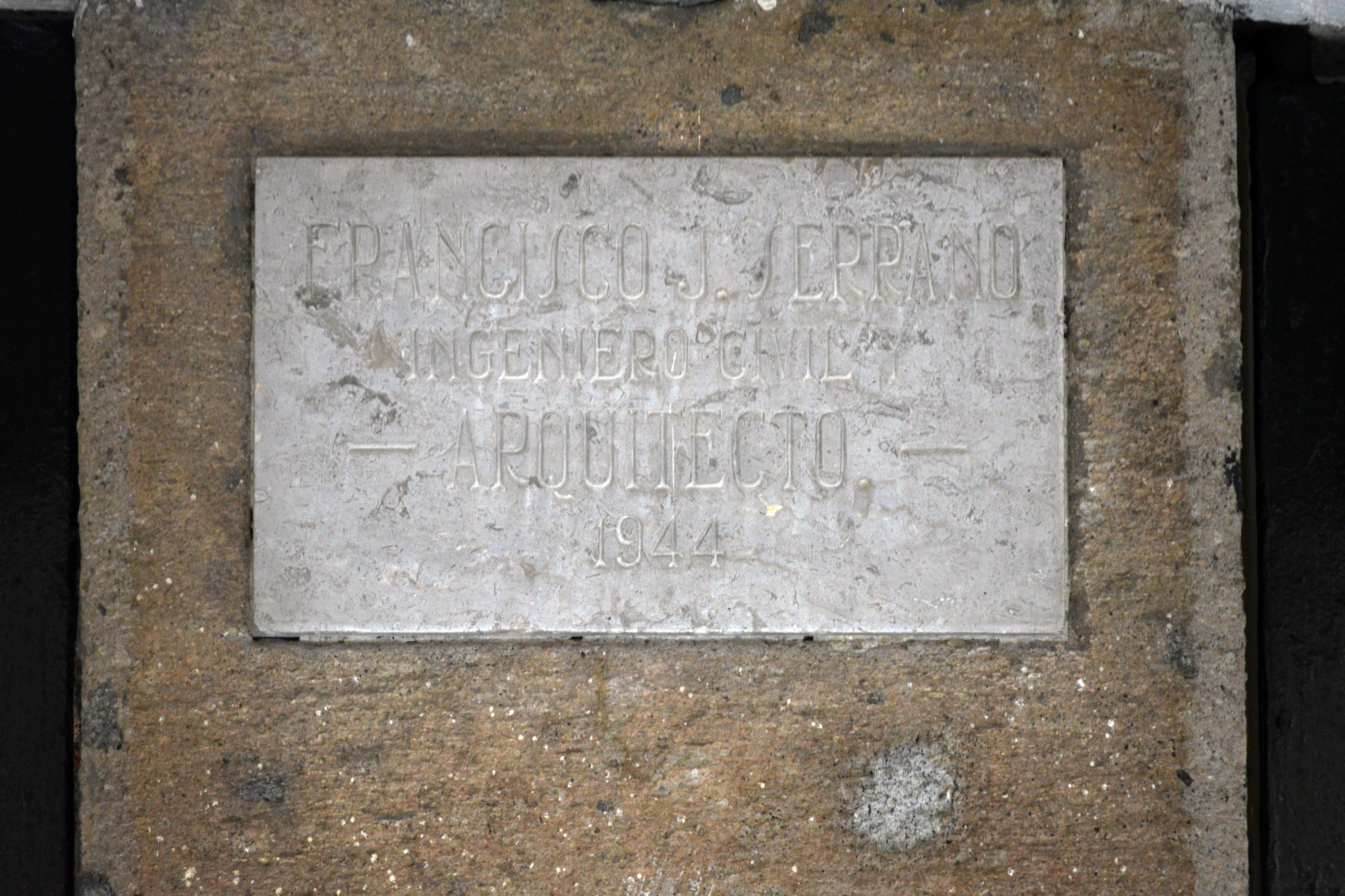 Plaque outside Edificio Basurto with the name of the author. It says: "Francisco J. Serrano, engineer and architect, 1944". Colonia Condesa, Mexico City, Mexico.